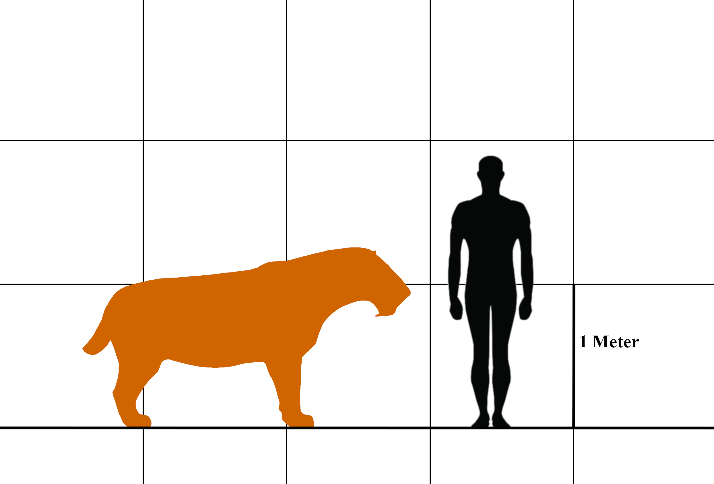 S. populator compared to a human of average size (1,80 cm tall)